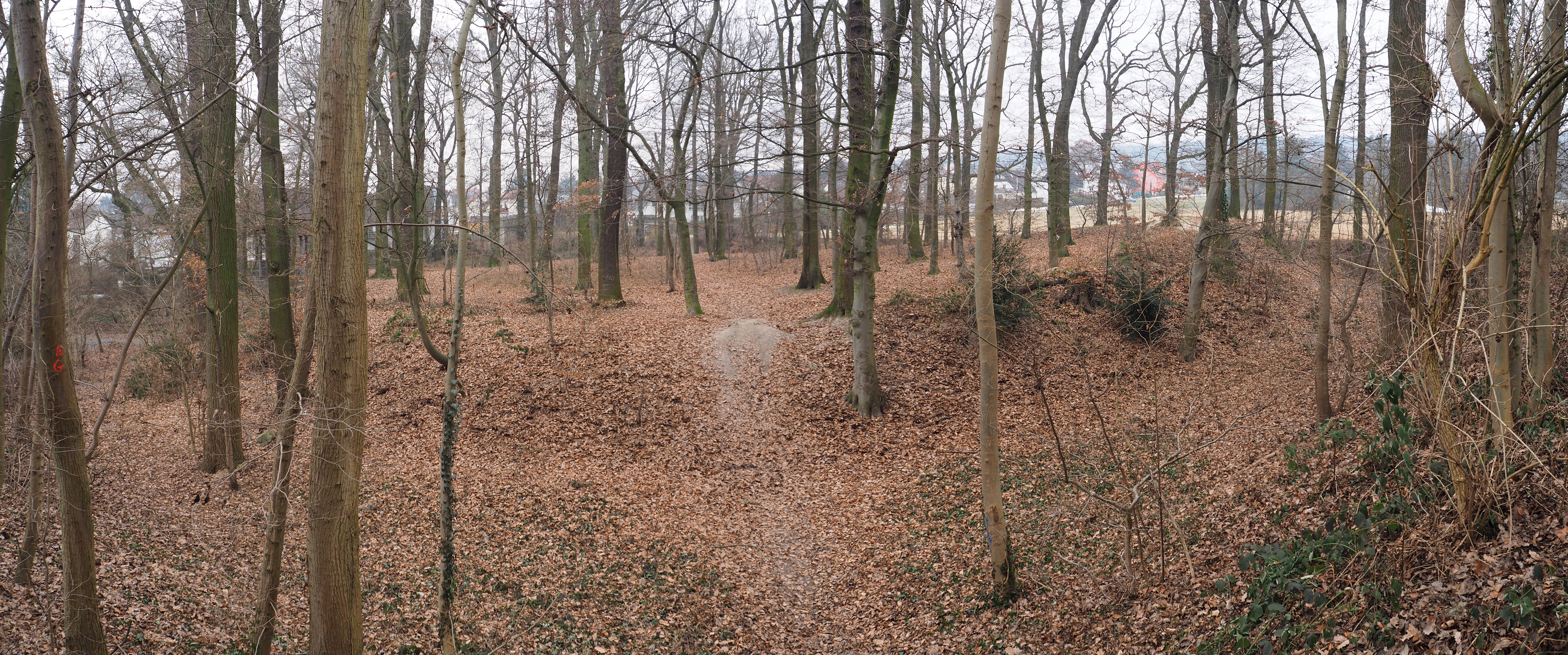 Former motte Schnepfenburg in Friedrichsdorf, view from east to rampart and moat